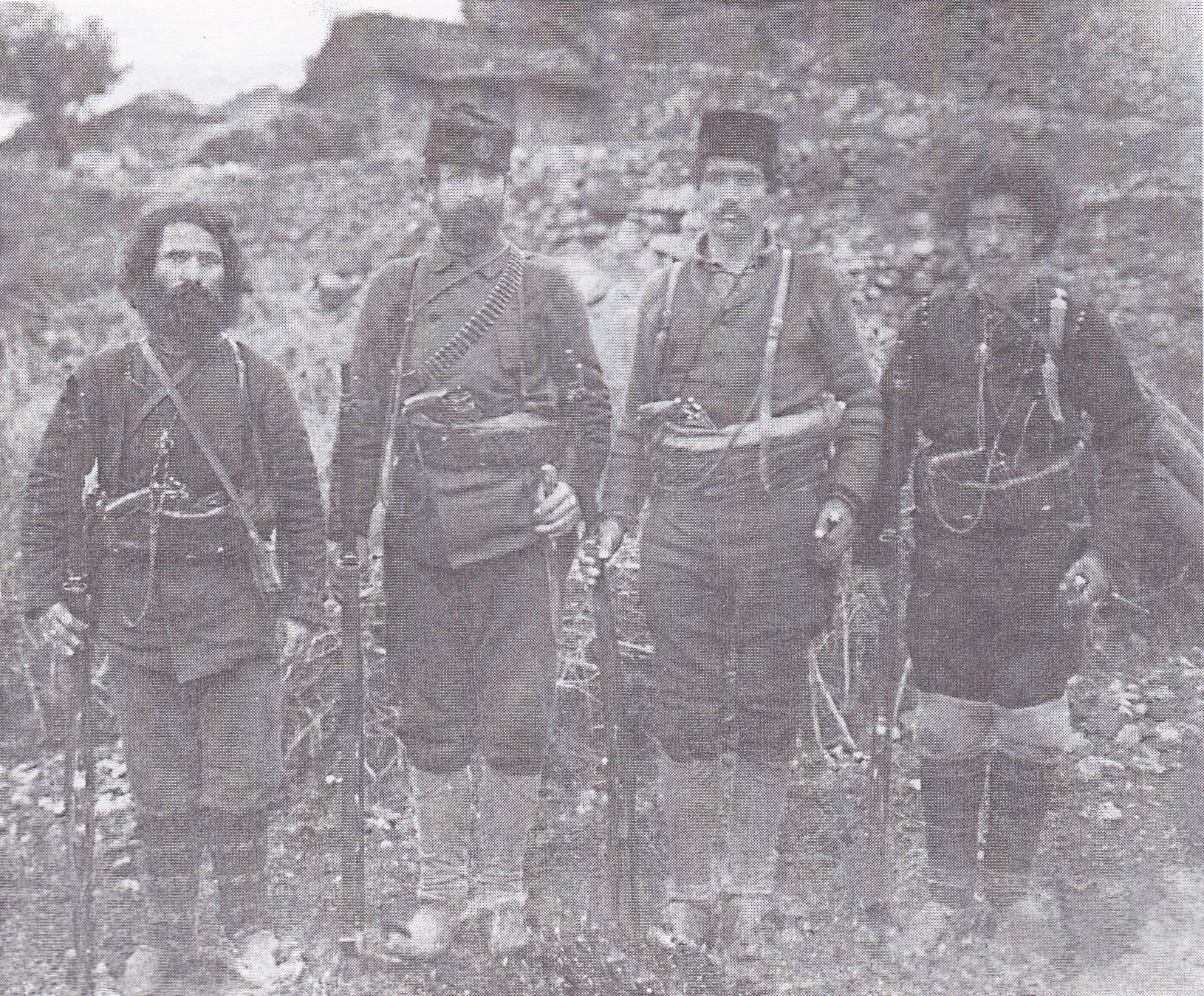 bulgarian revolutionary/ies